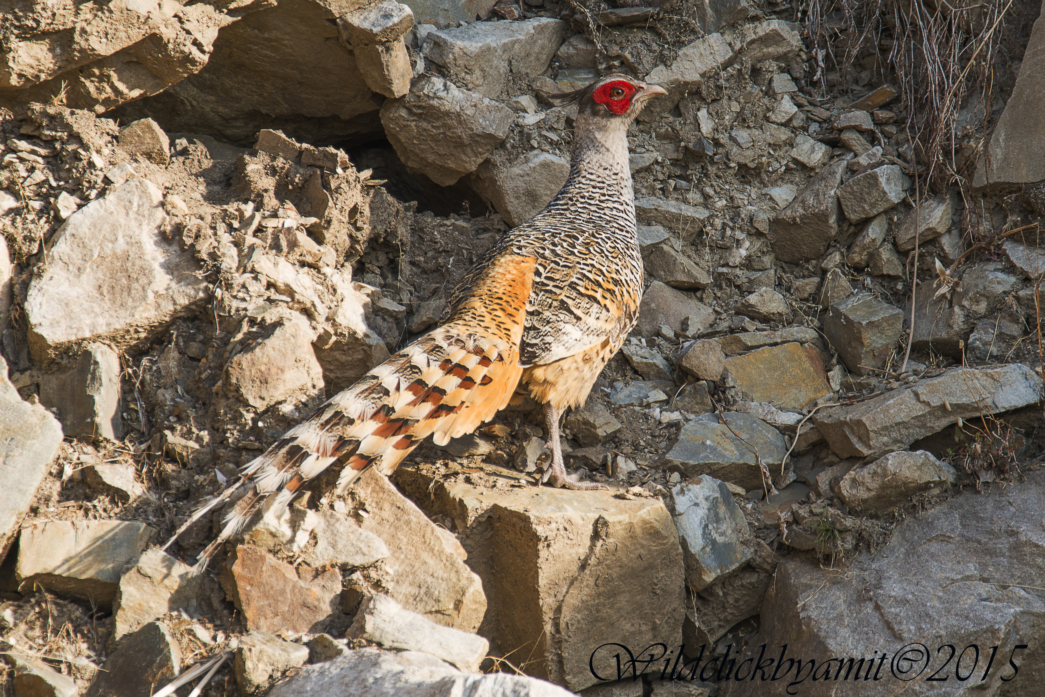 Cheer Pheasant, Pangot, Uttarakhand, India